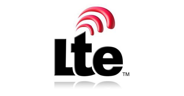 Unofficial Logo of Long Term Evolution